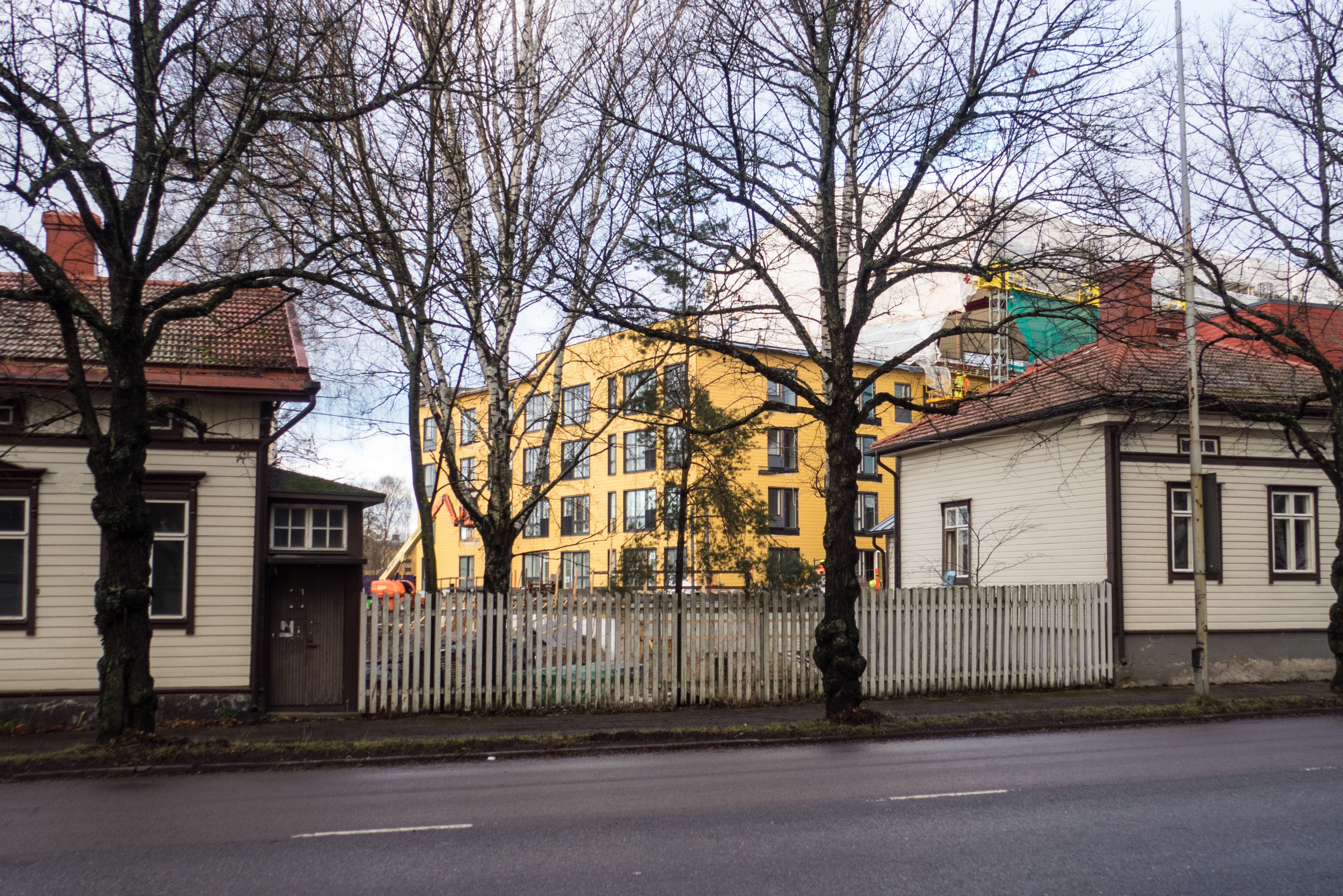 First wooden apartment building being constructed in the new Linnanfältti area in Turku's IX district. Seen here from Linnankatu.